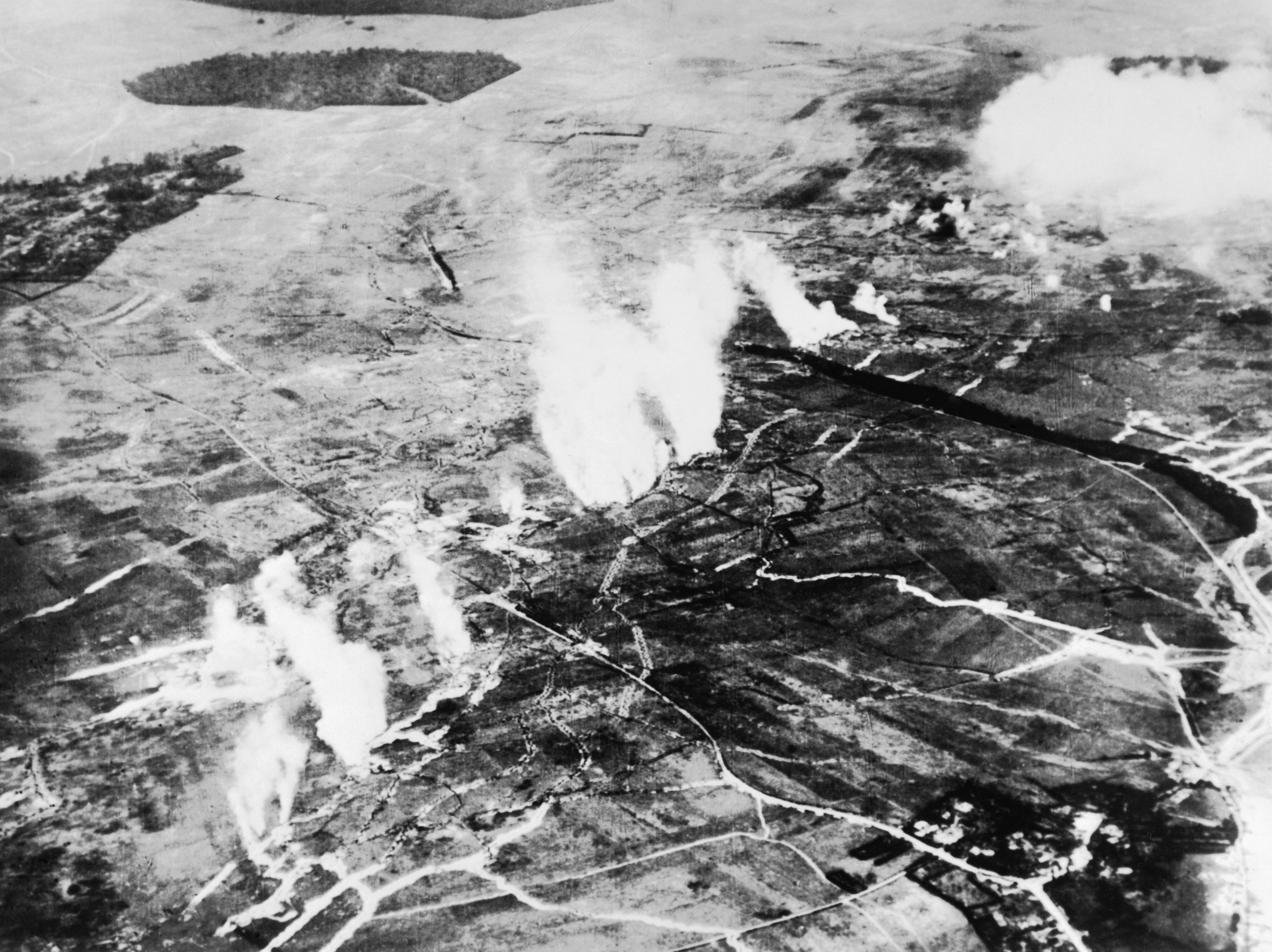 Aerial photograph of a British gas attack in progress between Carnoy and Montauban, shortly before the Somme offensive. Montauban, behind German lines, is at the top left and Carnoy, behind British lines, is at bottom right.